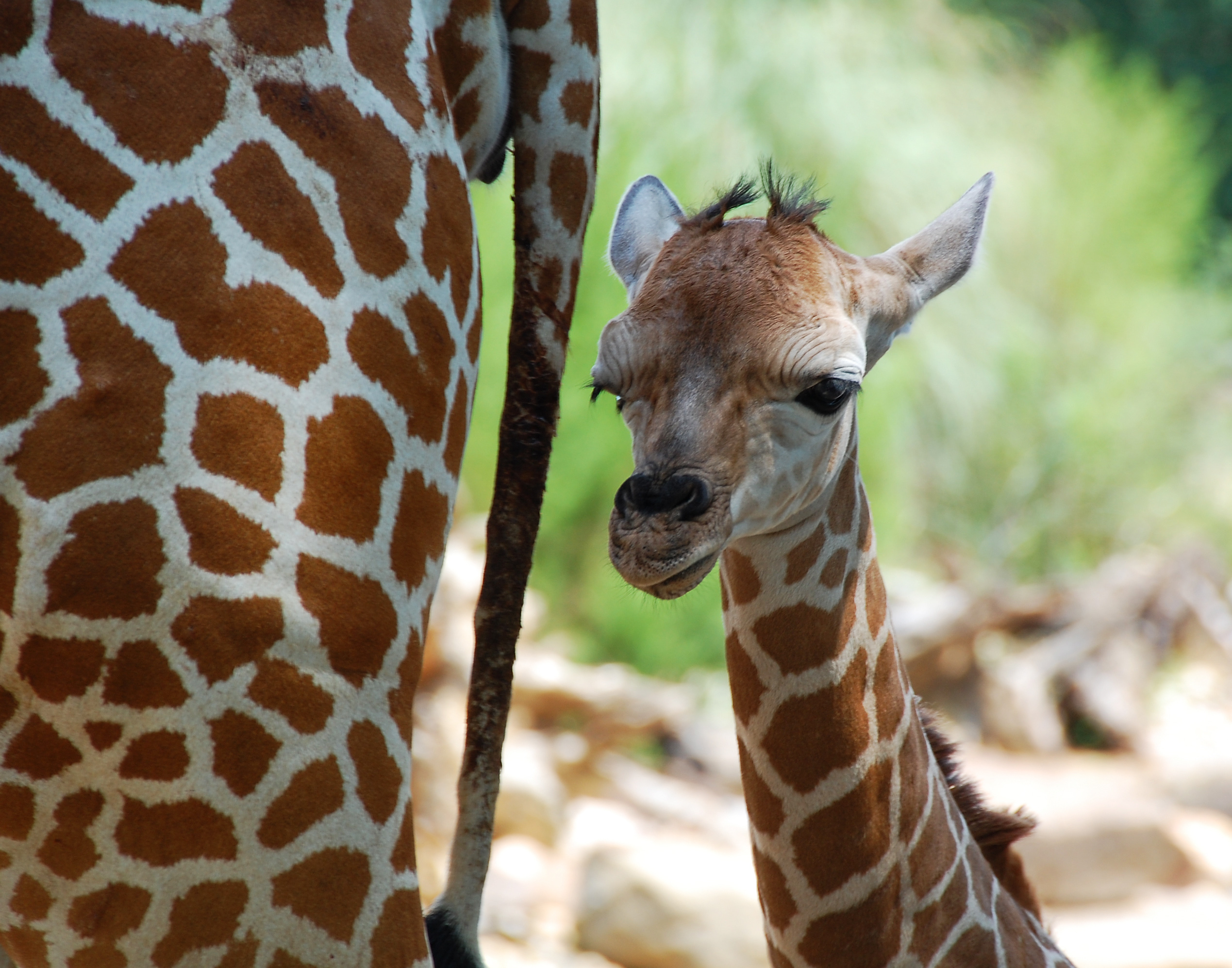 Baby giraffe (Giraffa camelopardalis), Willow, was born 5:30 AM July 28, 2010 at Birmingham Zoo, Alabama, USA. Sire was Morefu. Dam was Juno